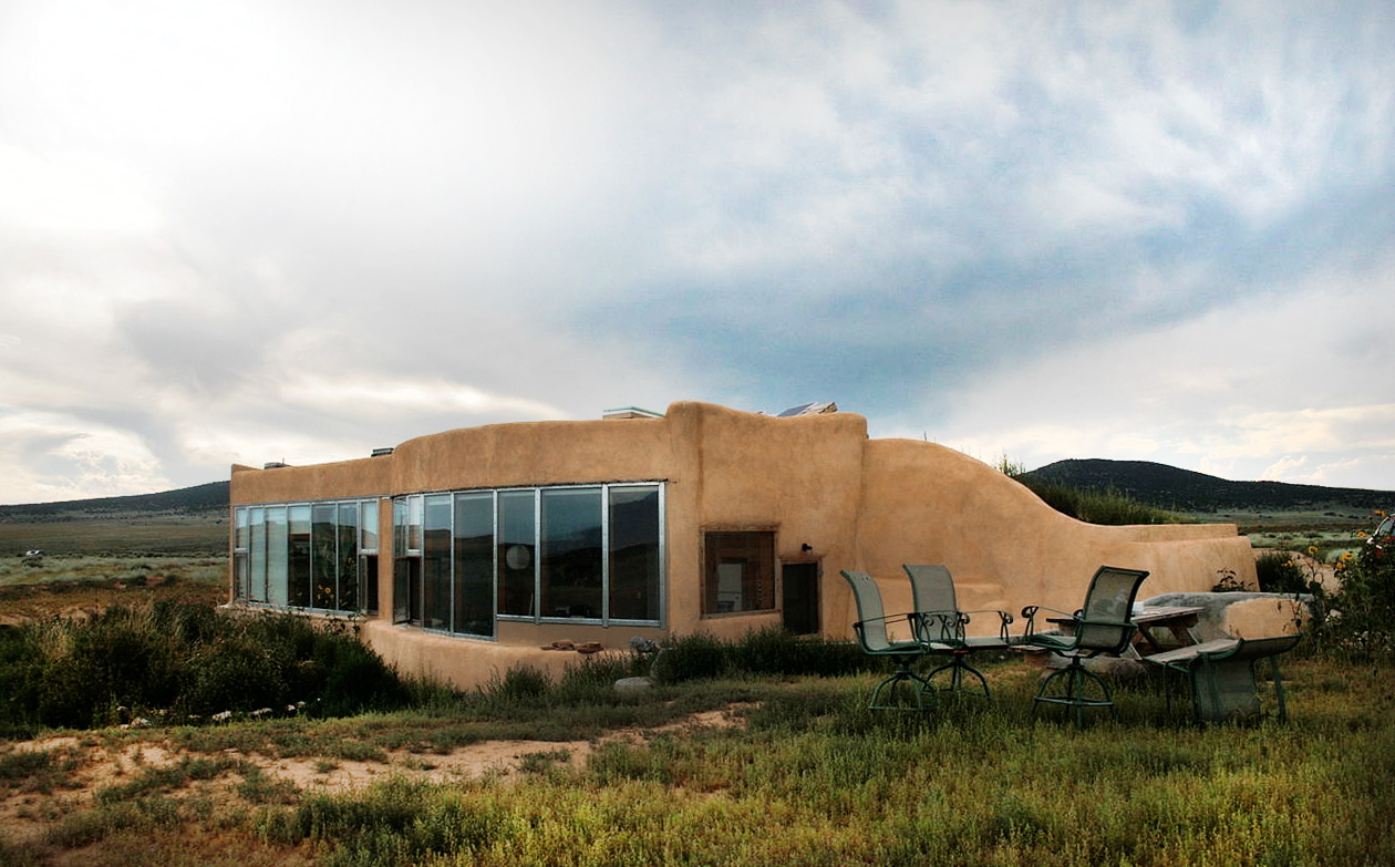 Exterior of the Jacobsen house earthship, Taos New Mexico 2009